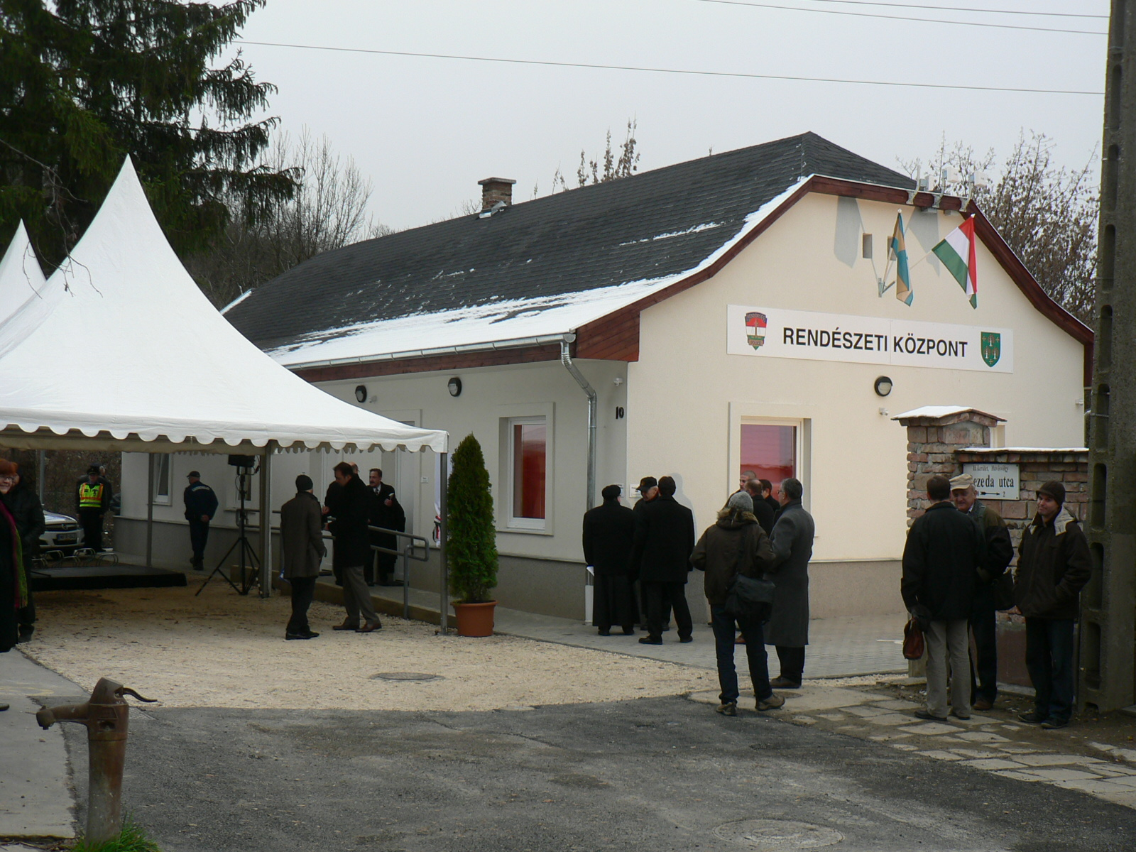 A Hidegkúti Rendészeti Központ a hűvösvölgyi Rezeda utcában, az avatása előtt